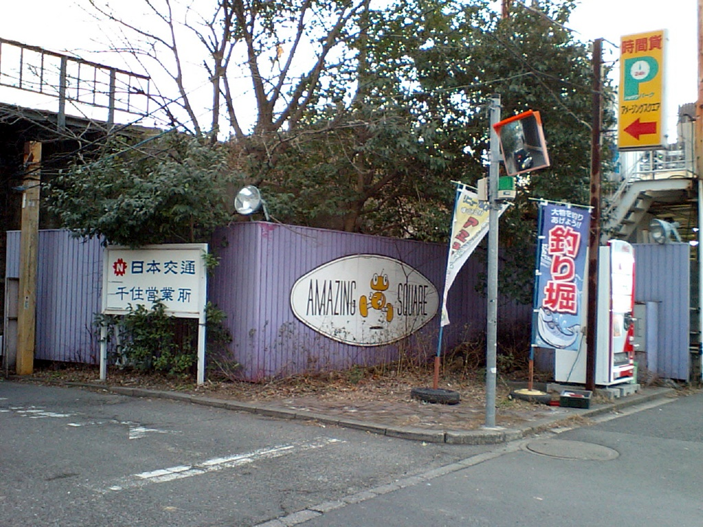 Entrance of Amazingsquare.